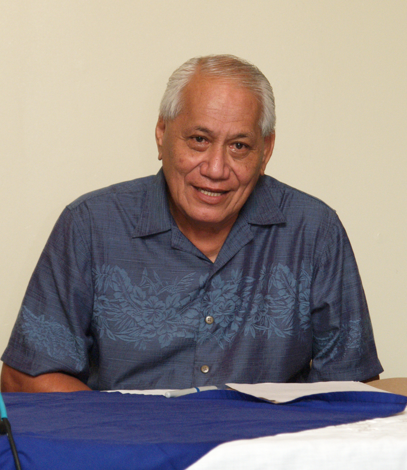 Tupua Tamasese Tupuola Tufuga Efi at a medical conference in June 2006.